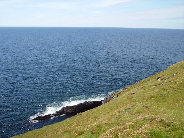 Brow Head - end of the world. Far out into the Atlantic Ocean. The very southernmost piece of land of mainland Ireland.